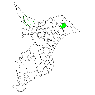 Location Map of former Yamada Town, Chiba Prefecture, Japan, now part of Katori City.